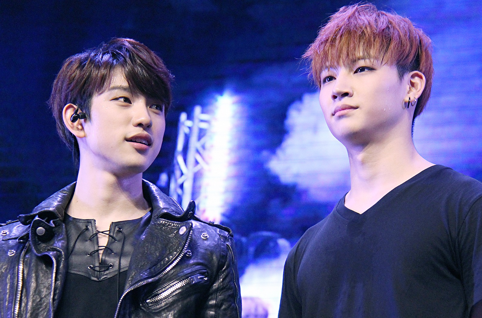 Park Jinyoung and JB in 2015